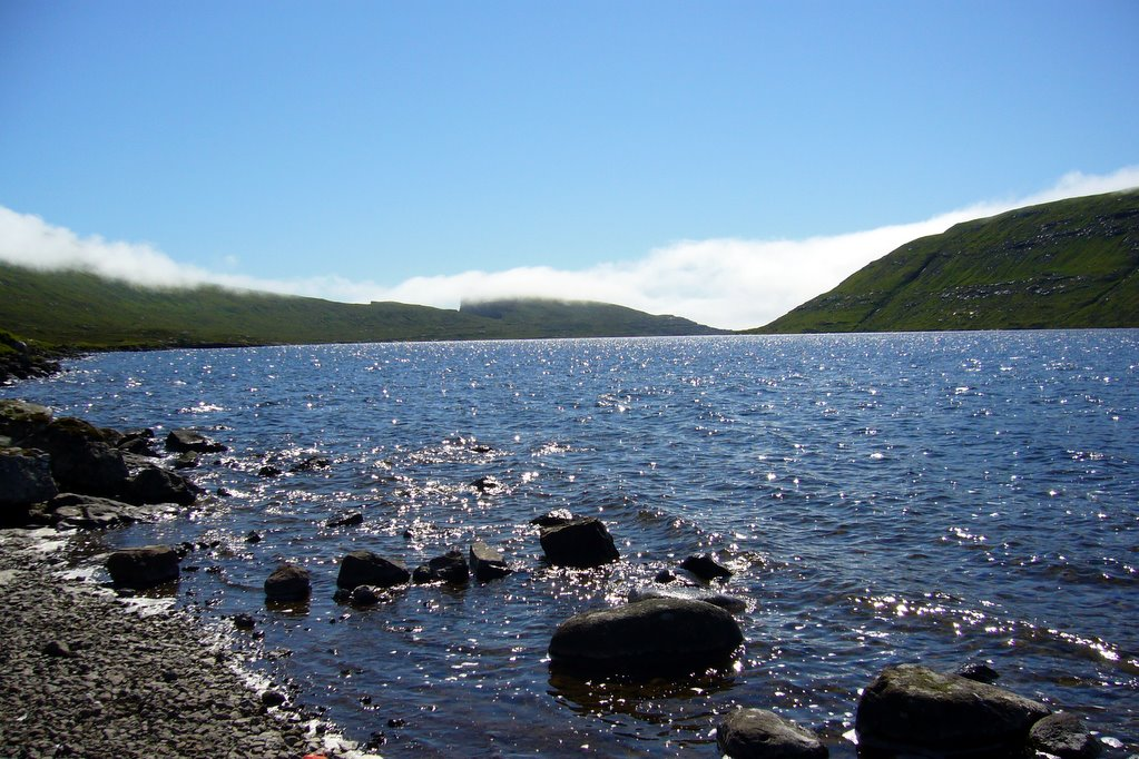 Trælanípan akkurát undir í mjørka... See where this picture was taken. ?